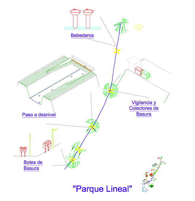 Proyecto lineal (a)